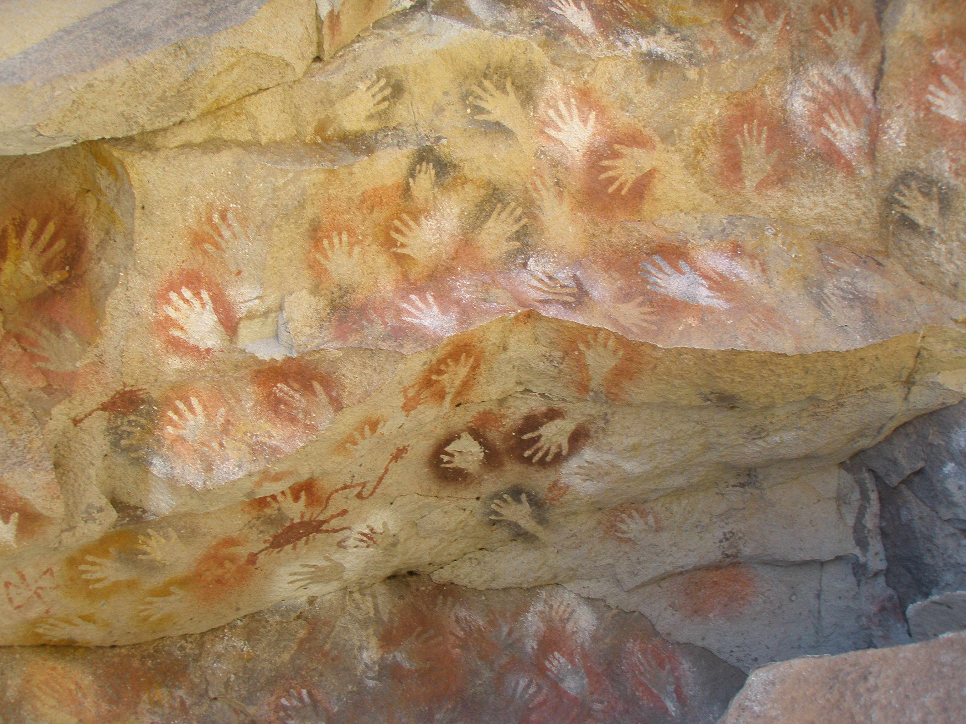 The Cave of the Hands. 10,000 years old art